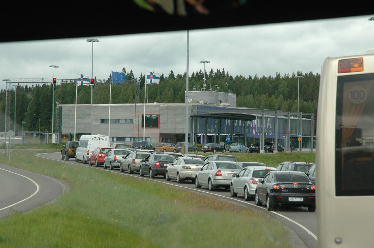 Border crossing to Finland from Russia in Nuijamaa